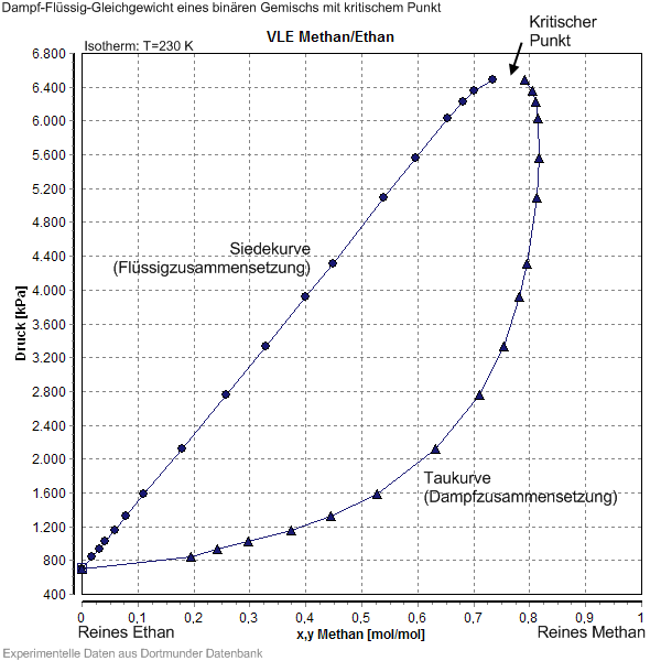 Vapour-liquid equilibrium of a mixture of methane and ethane including critical point